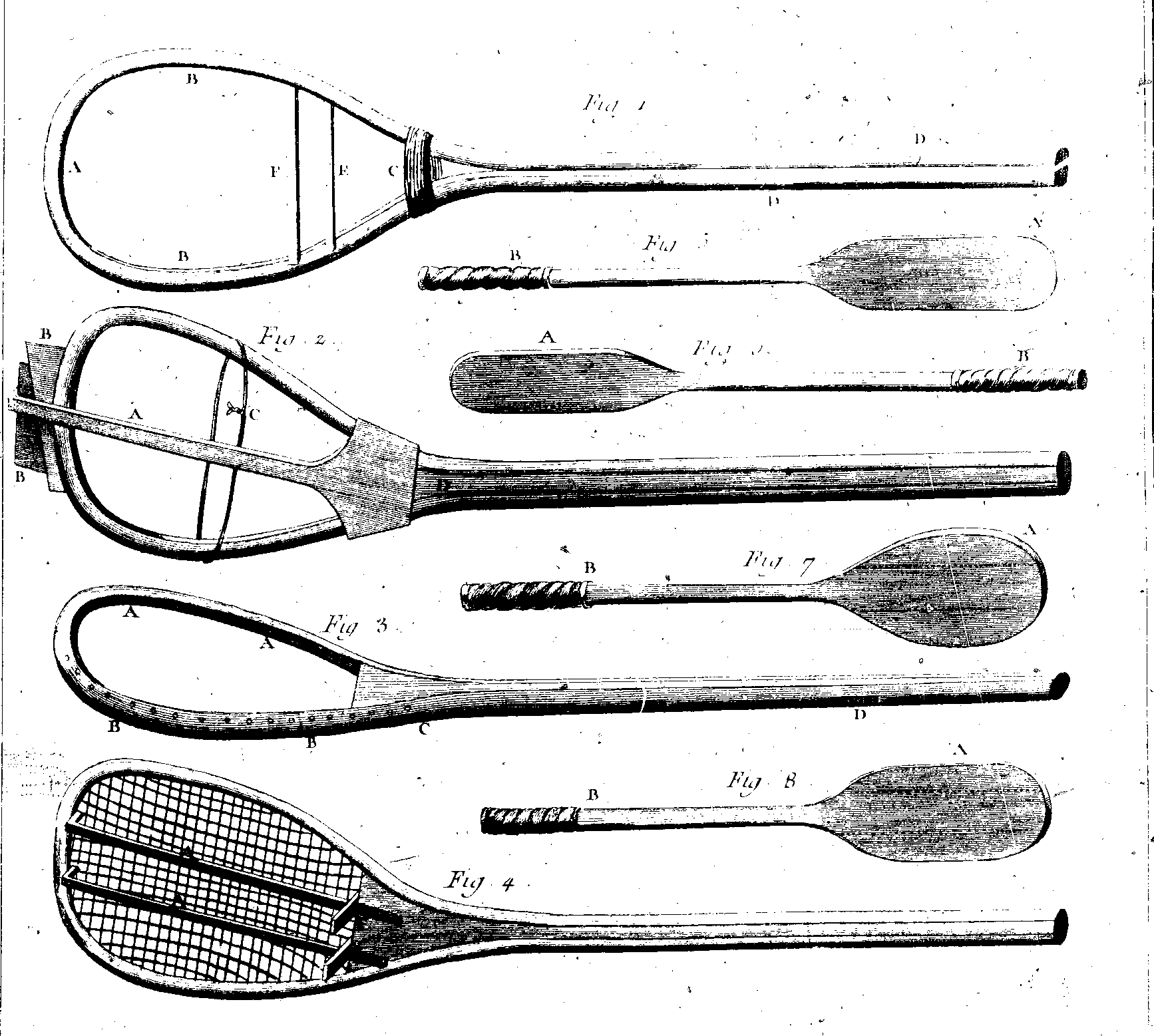 Late 18th-century illustration (badly over-exposed in this scan) of jeu de paume or "real tennis" paddle-bats (battoirs) and (in various stages of construction) strung racquets or triquets.